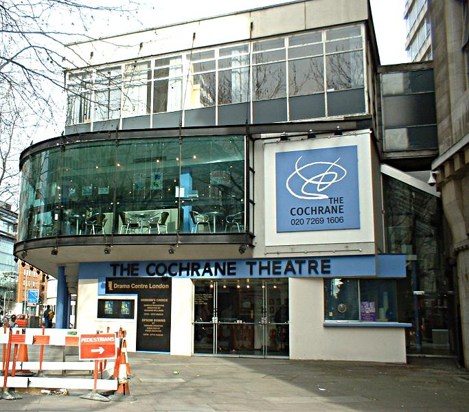 Cochrane Theatre taken by C Ford, March 04.